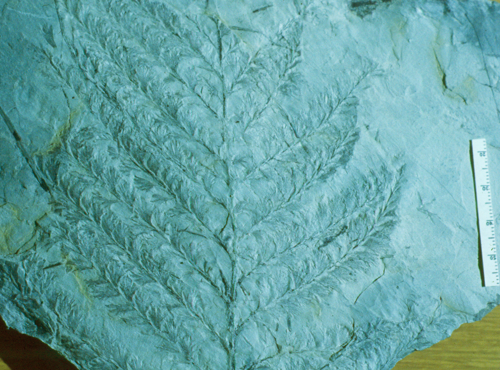 Sterile specimen of Archaeopteris macilenta from Late Devonian Hancock New York in Delevoryas lab University of Texas 1978